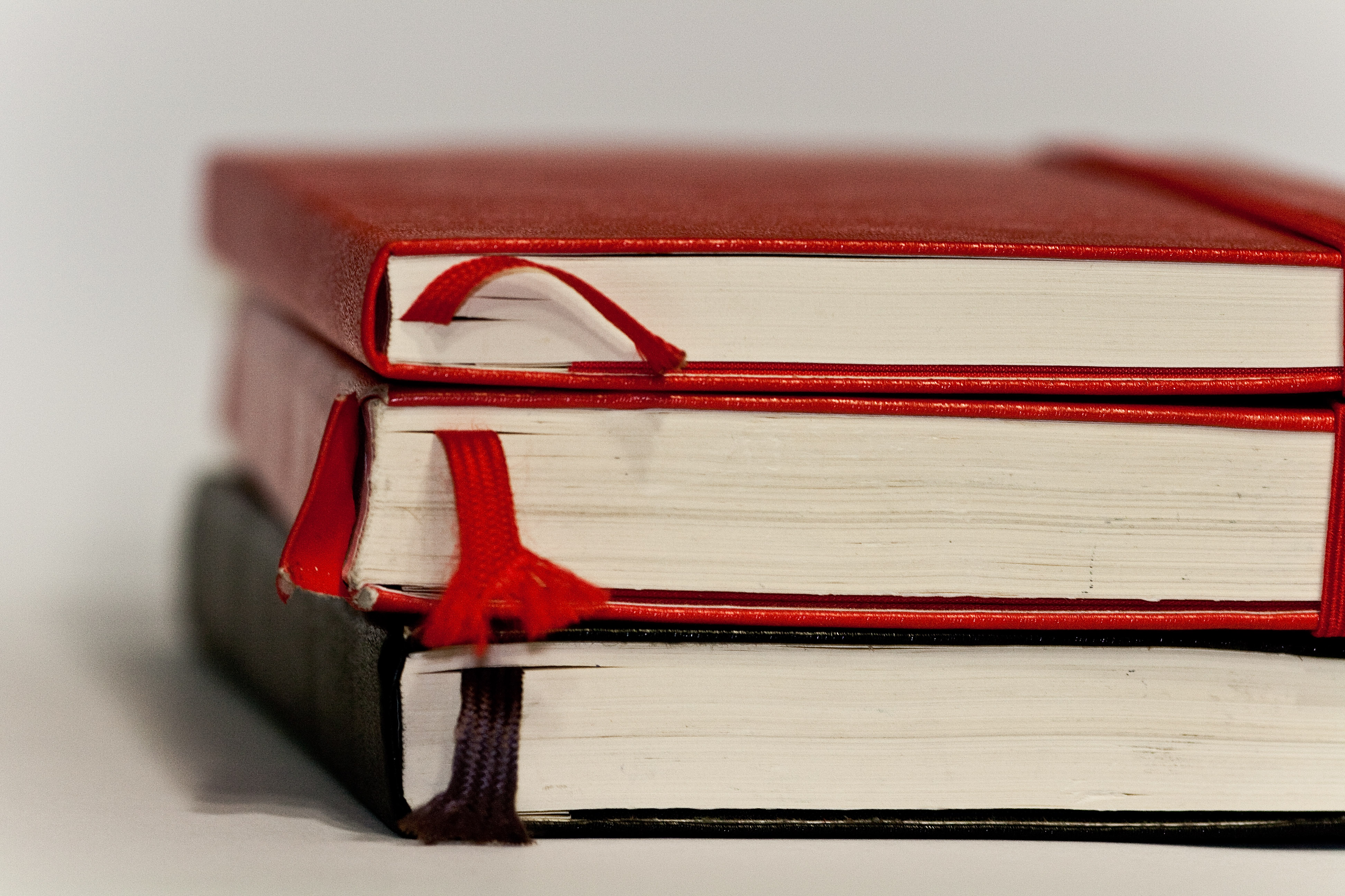 Moleskine notebook and diaries.